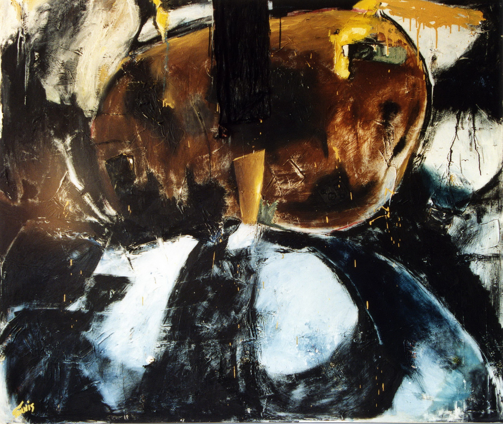 Christiaan Tonnis ~ Magic Mountain (after Thomas Mann) / Oil on canvas / 61 x 72.8 inches / February 1987